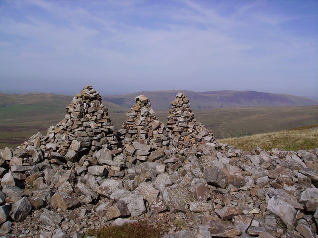 Three men of Gragareth, Yorkshire Dales, actually in Lancashire, England